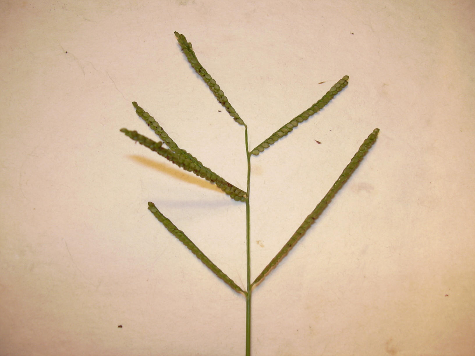 Paspalum scrobiculatum (seeds). Location: Maui, Hana Hwy